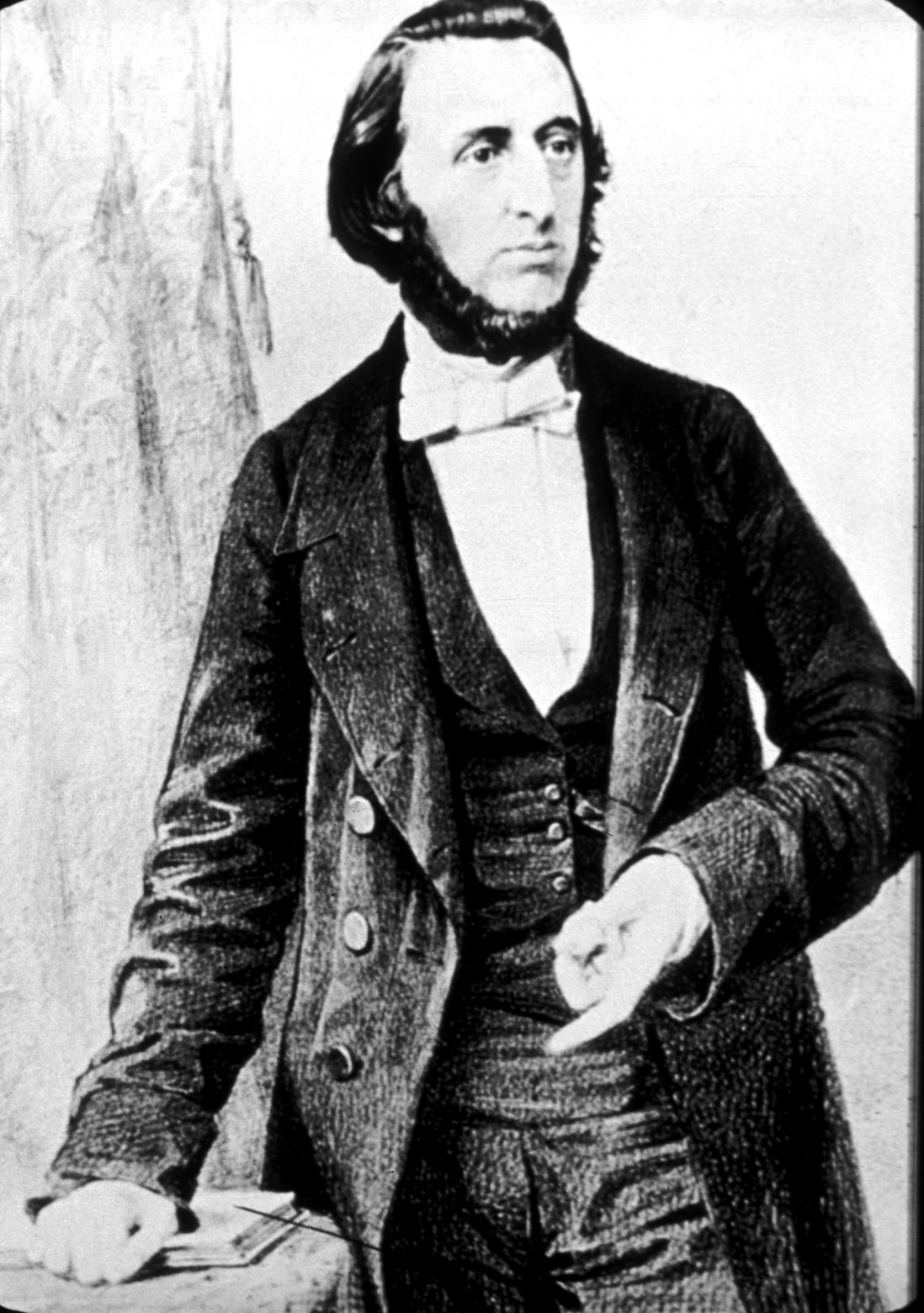 Photograph of William Booth